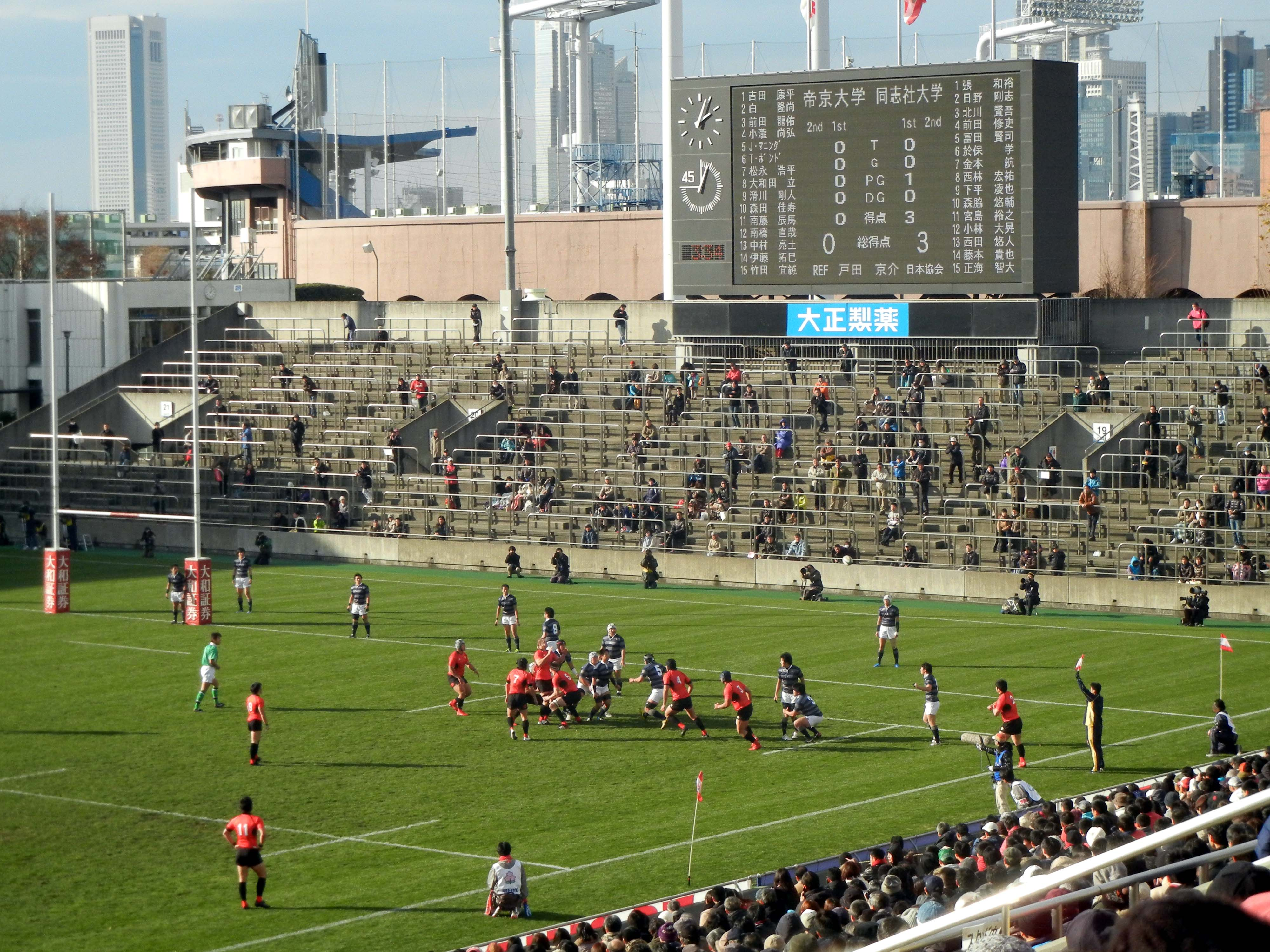 Teikyo University vs Doshisha University